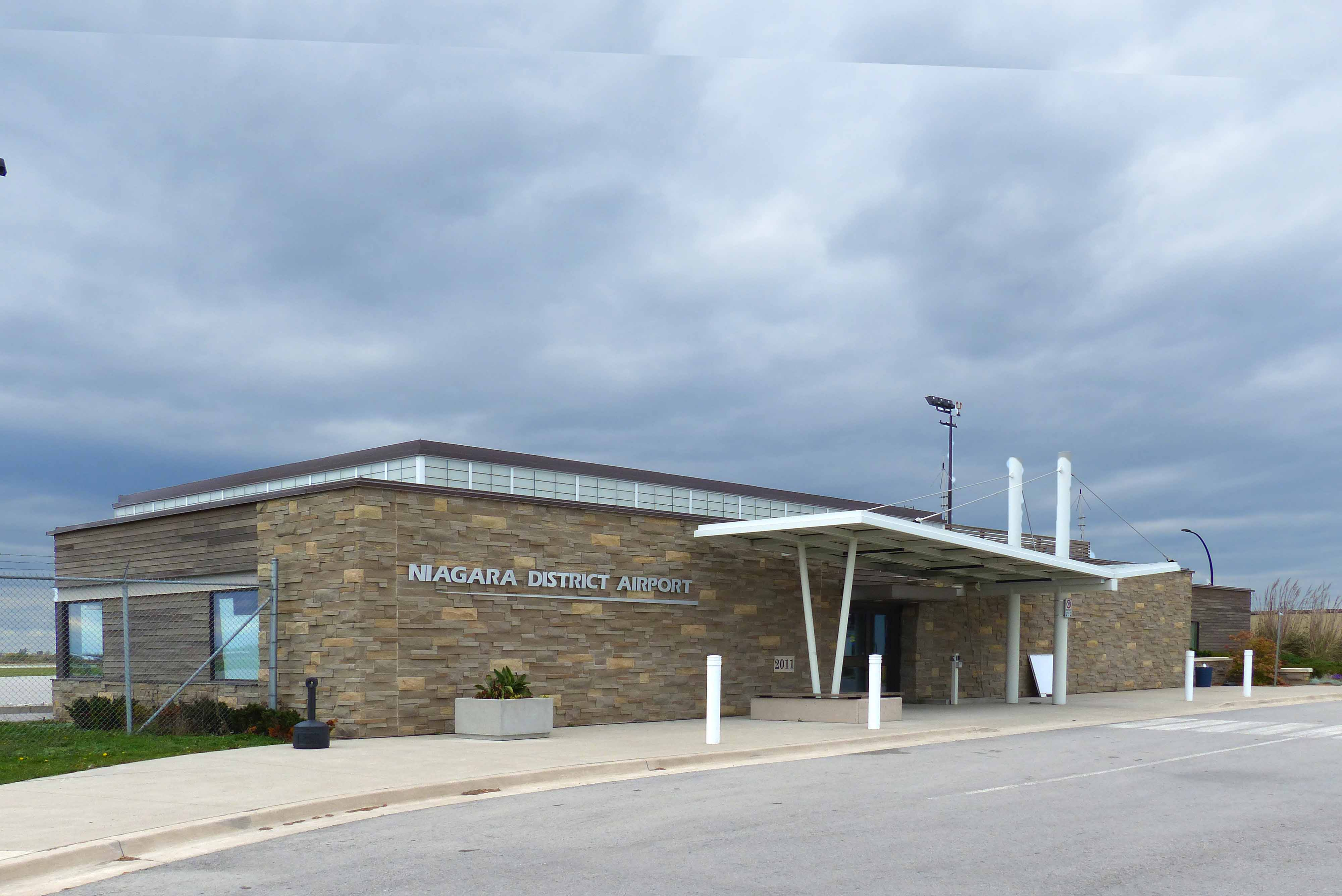 The terminal building at the St. Catharines/Niagara District Airport.